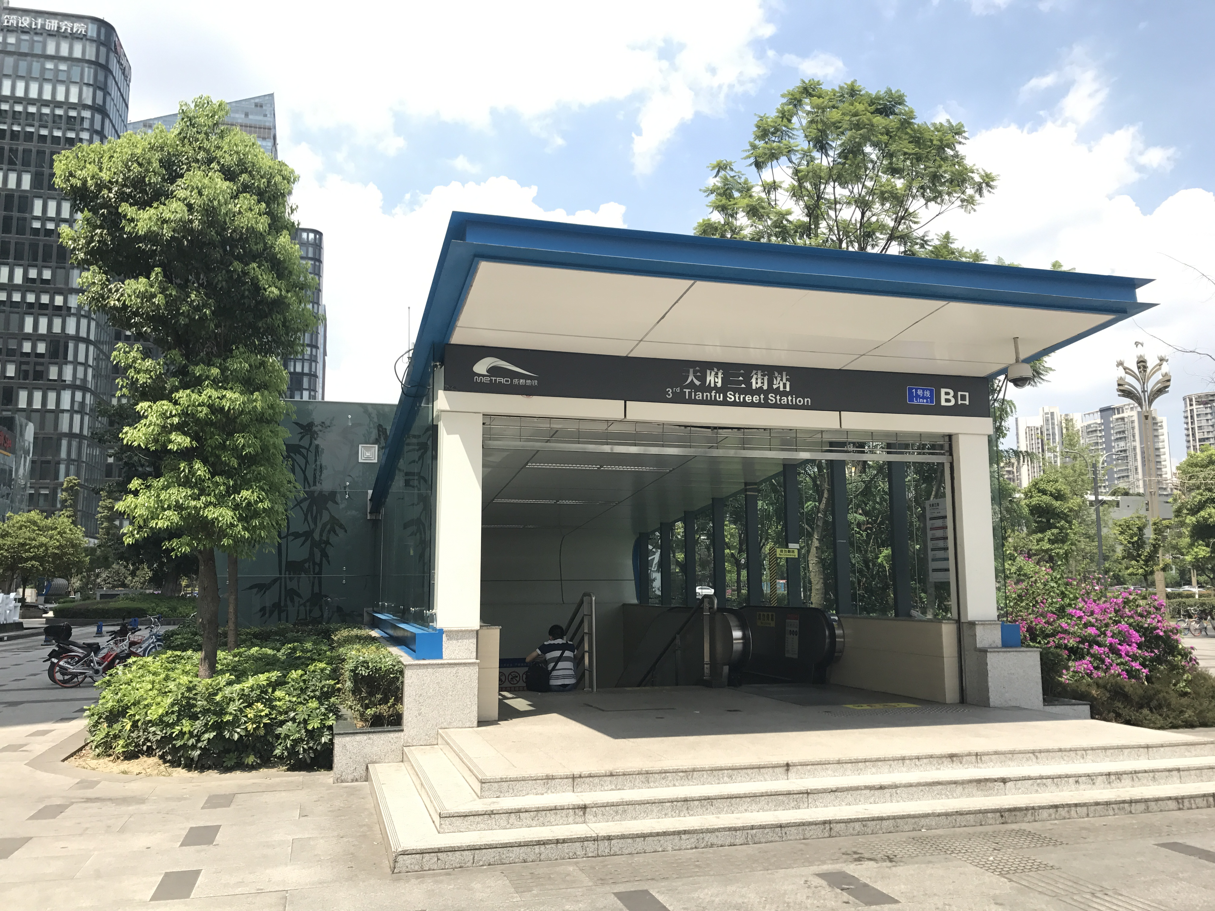 Entrance B of 3rd Tianfu Street Station, Chengdu Metro